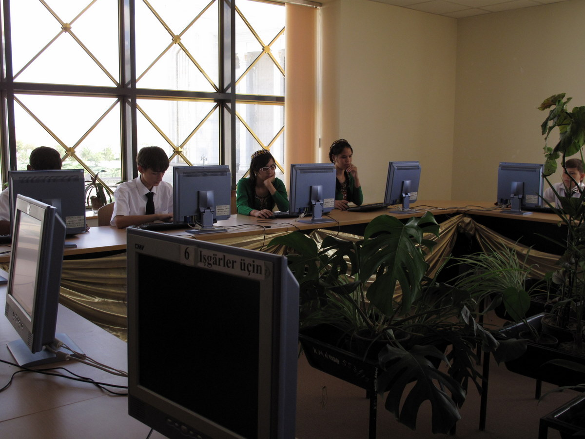 one page took 10 minutes to load. all of them are sharing one modem uplink.